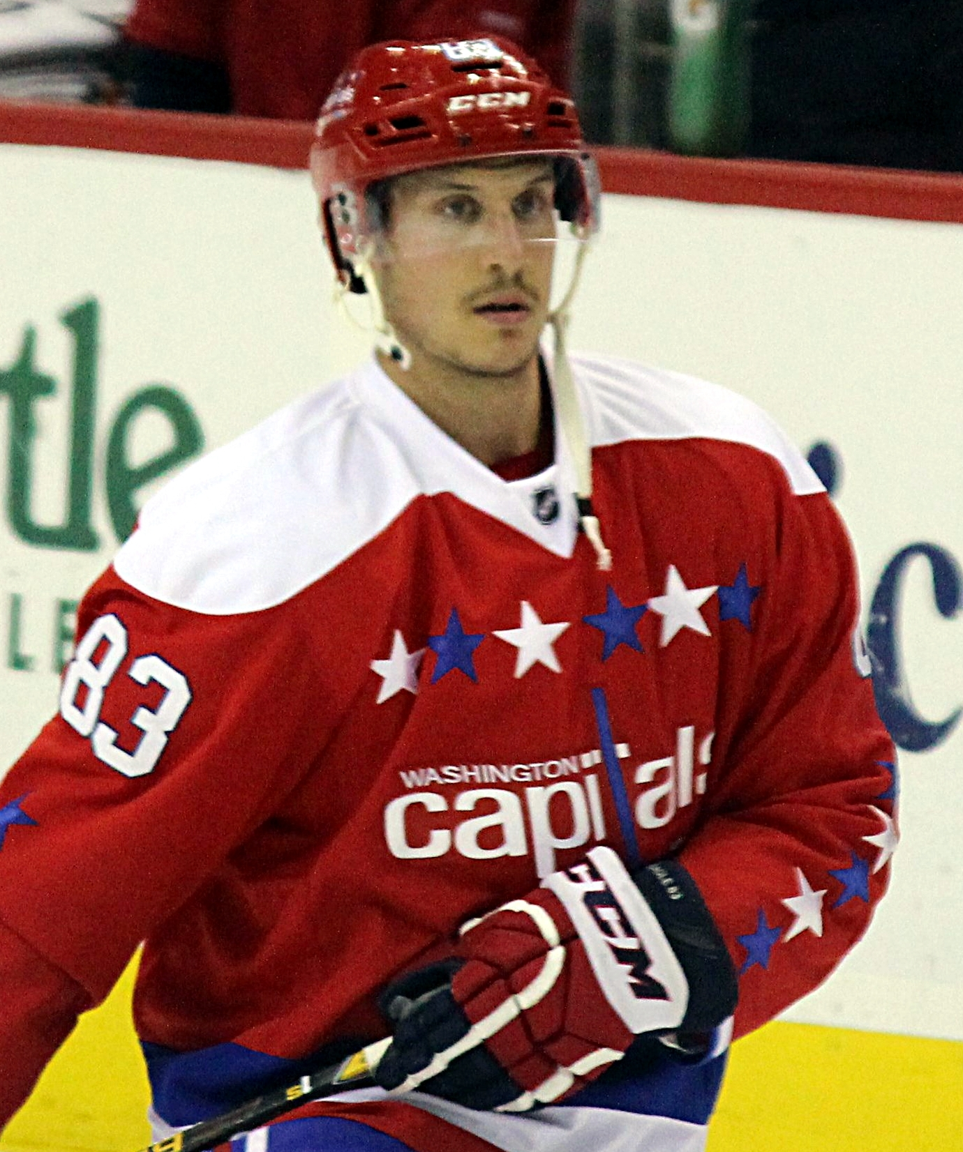 Washington Capitals forward Jay Beagle during a game against the Pittsburgh Penguins, Thursday, April 7, 2016 at Verizon Center in Washington, D.C.